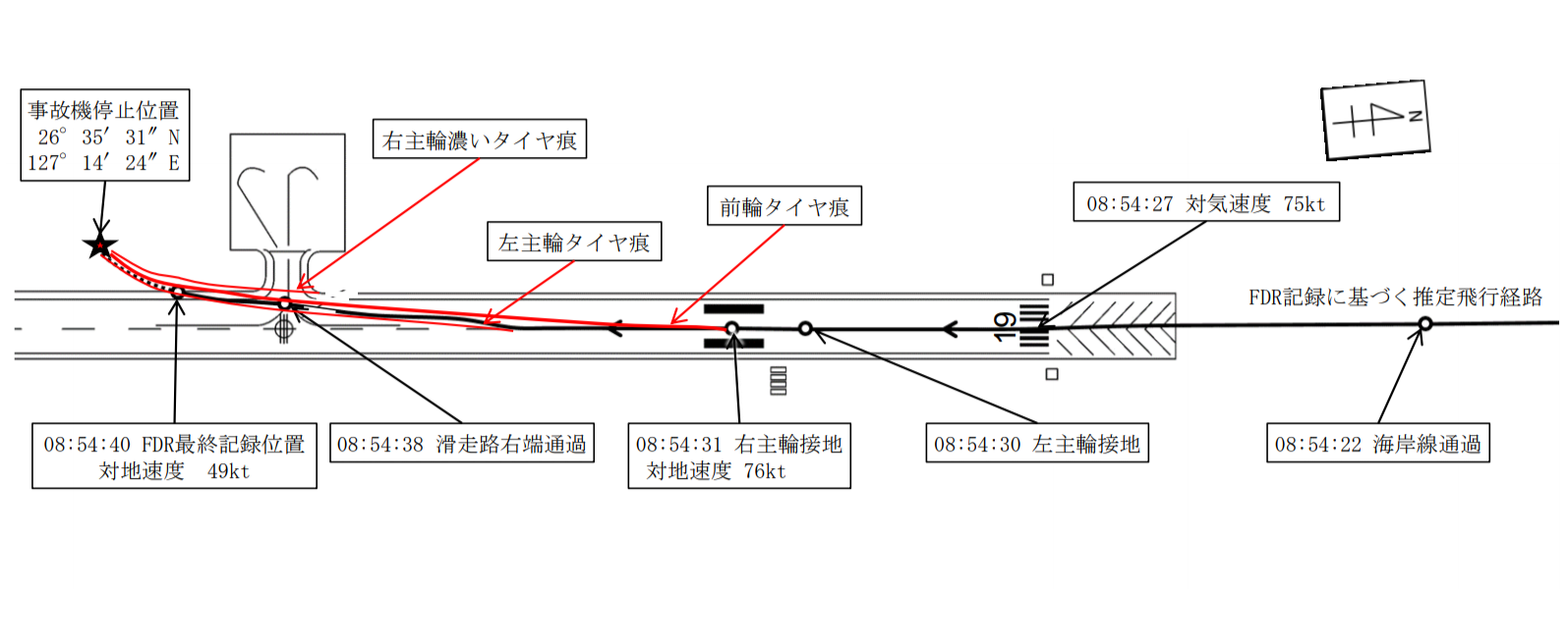 First Flying Flight 101 course